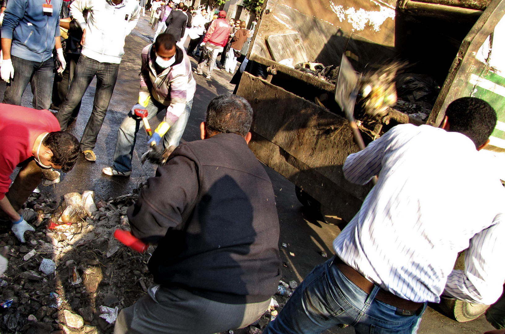 Volunteers remove stone, rubble, mud, trash and other waste from Tahrir Square using shovels. Here we overturned a large waste bin filled with the stuff, then proceeded to dispose of it into the garbage truck. Volunteers worked with municipal workers to clean up Tahrir Square.